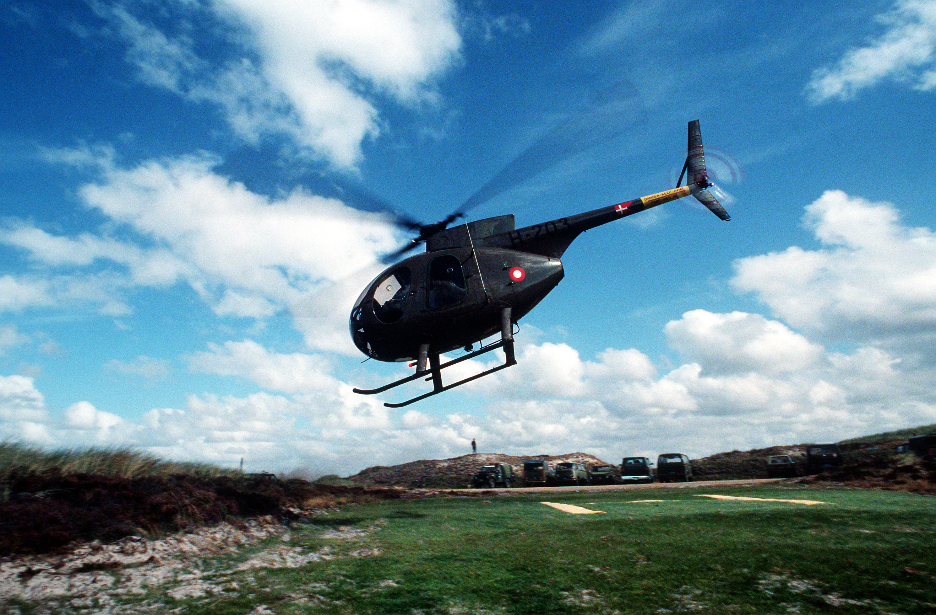 A Danish OH-6 Cayuse helicopter lifts off from a landing zone beside the range control site at the Oksboel firing range during the NATO exercise Tactical Fighter Weaponry '89. (Released to Public)